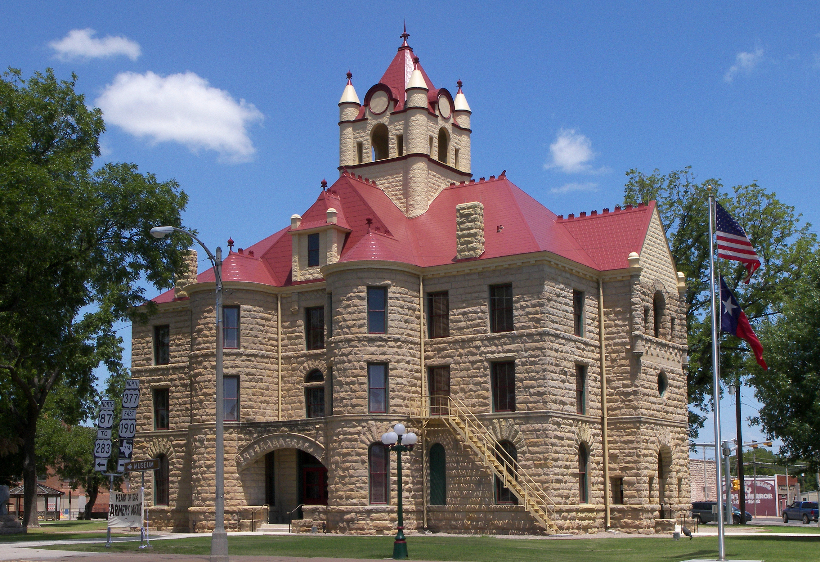 The McCulloch County Courthouse located in Brady, Texas, United States was built in 1900. The building was designated a Recorded Texas Historic Landmark in 1967 and listed on the National Register of Historic Places on December 16, 1977.